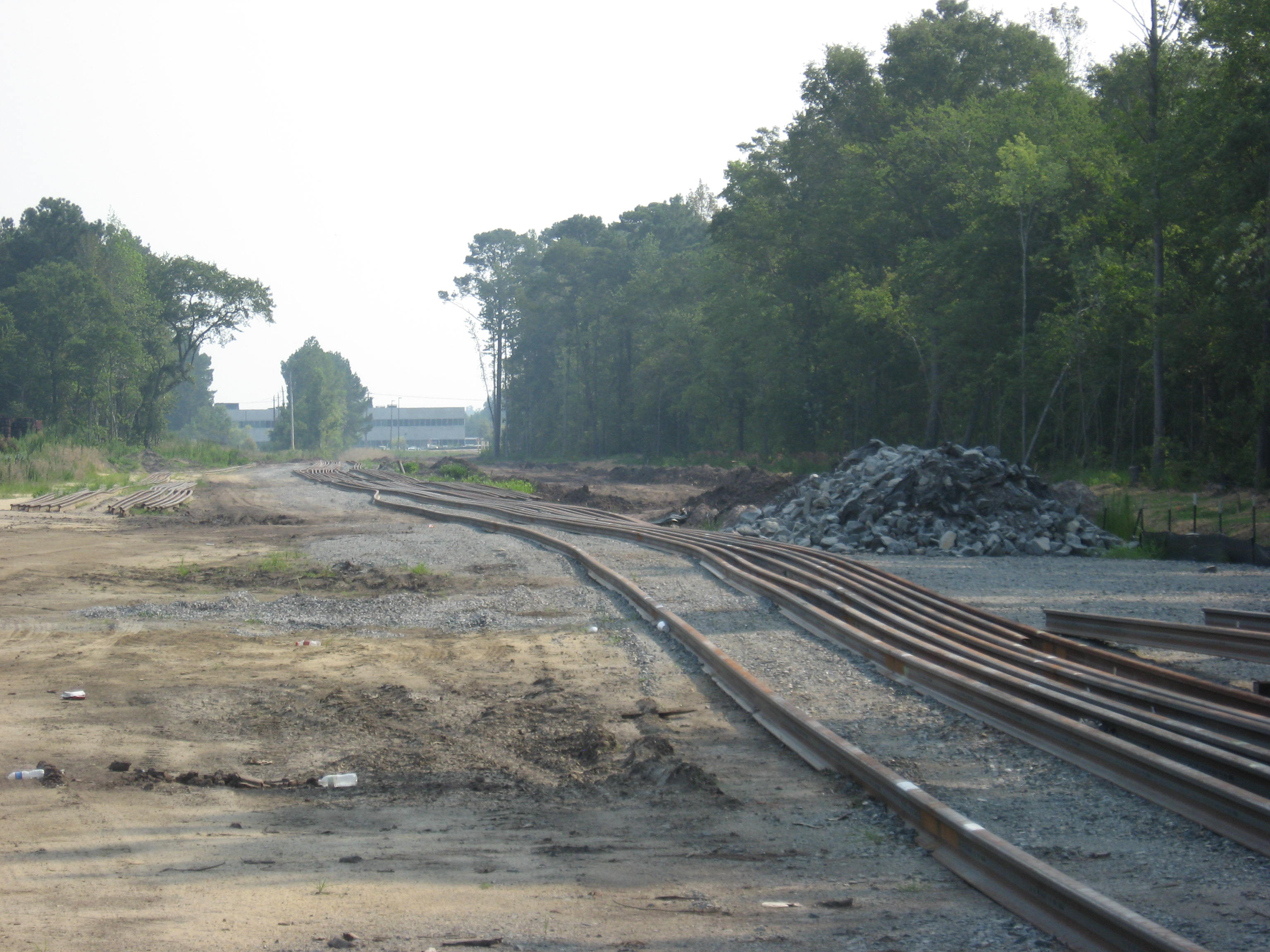 Rail spur construction at the Global TransPark. Construction is set to be complete in 2012, which will provide GTP businesses with direct rail access to the Port of Morehead City, North Carolina.